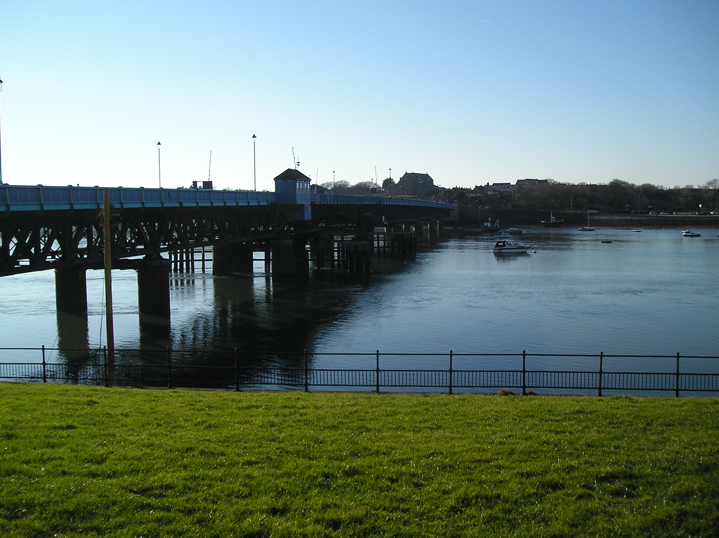 {} Walney from Barrow-in-Furness, including Jubilee bridge {Author } Lee Masson {}January 2006 Taken by Lee Masson January 2006, Walney from Barrow-in-Furness including Jubilee Bridge